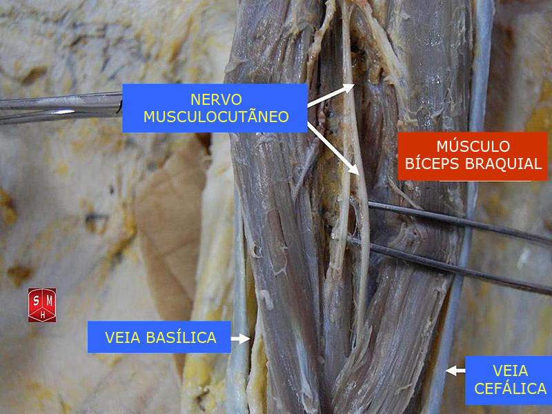 Musculocutaneous nerve